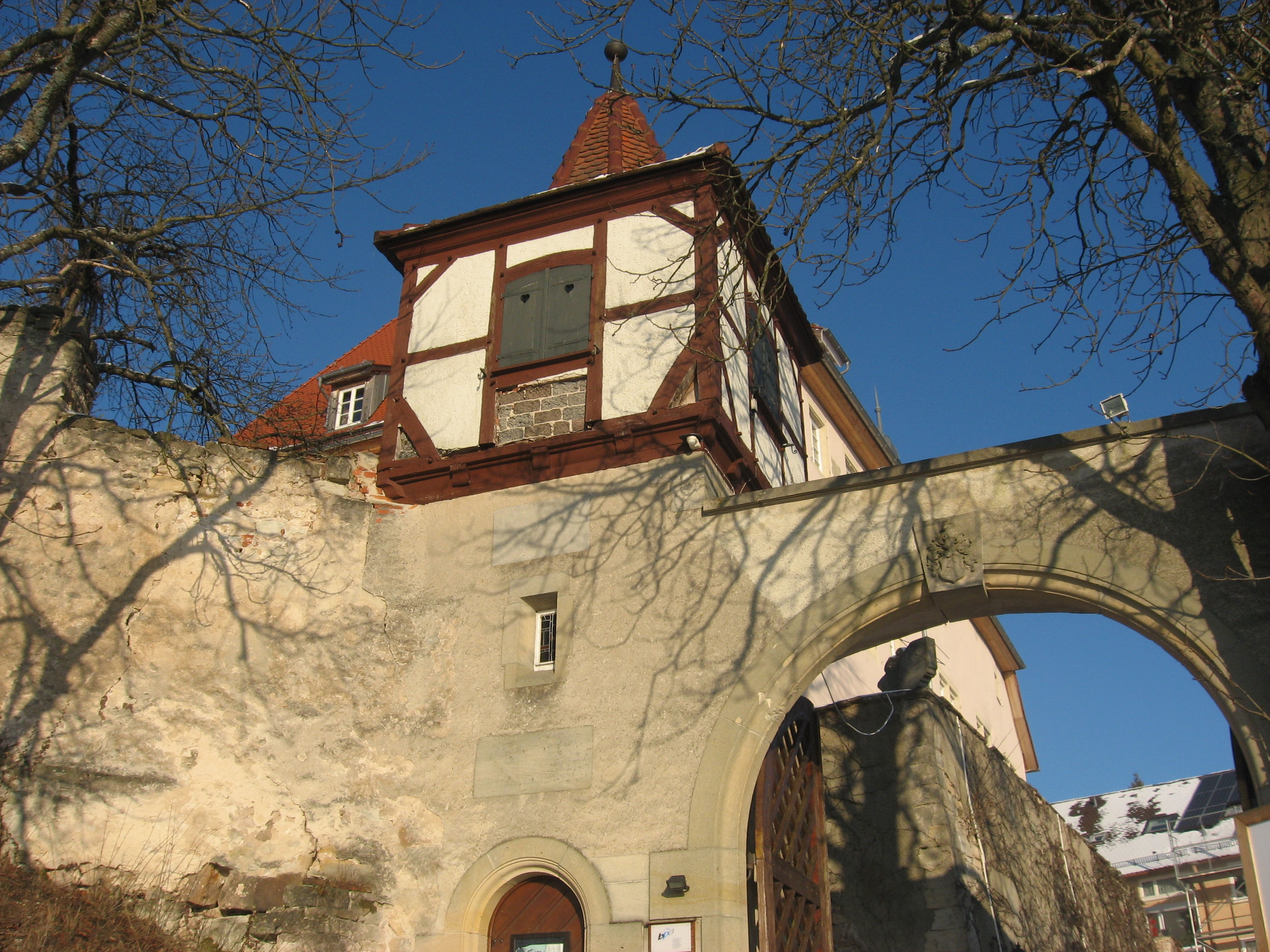 Entrance of Roseck Castle.